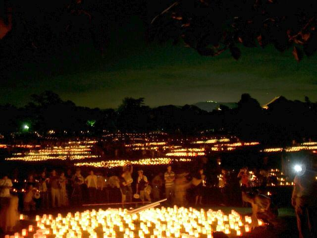 This photo presents Kasugano-Field of Nara Park in Nara Tokae Festival 2007 ja: 2007年度 なら燈花会 奈良公園春日野園地会場 手ぶれ補正、レタッチ加工あり